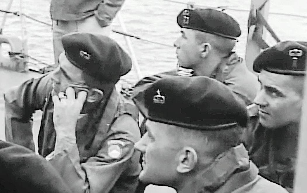 Screen shot from a historical film of a U.S. Army special forces detachment from 8231st Army Unit, U.S. Army Forces, Far East receiving instruction prior to conducting water insertion and demolition training off the coast of White Beach, Okinawa, Japan aboard a U.S. Naval ship, wearing their then unofficial green berets.[1][2][3]